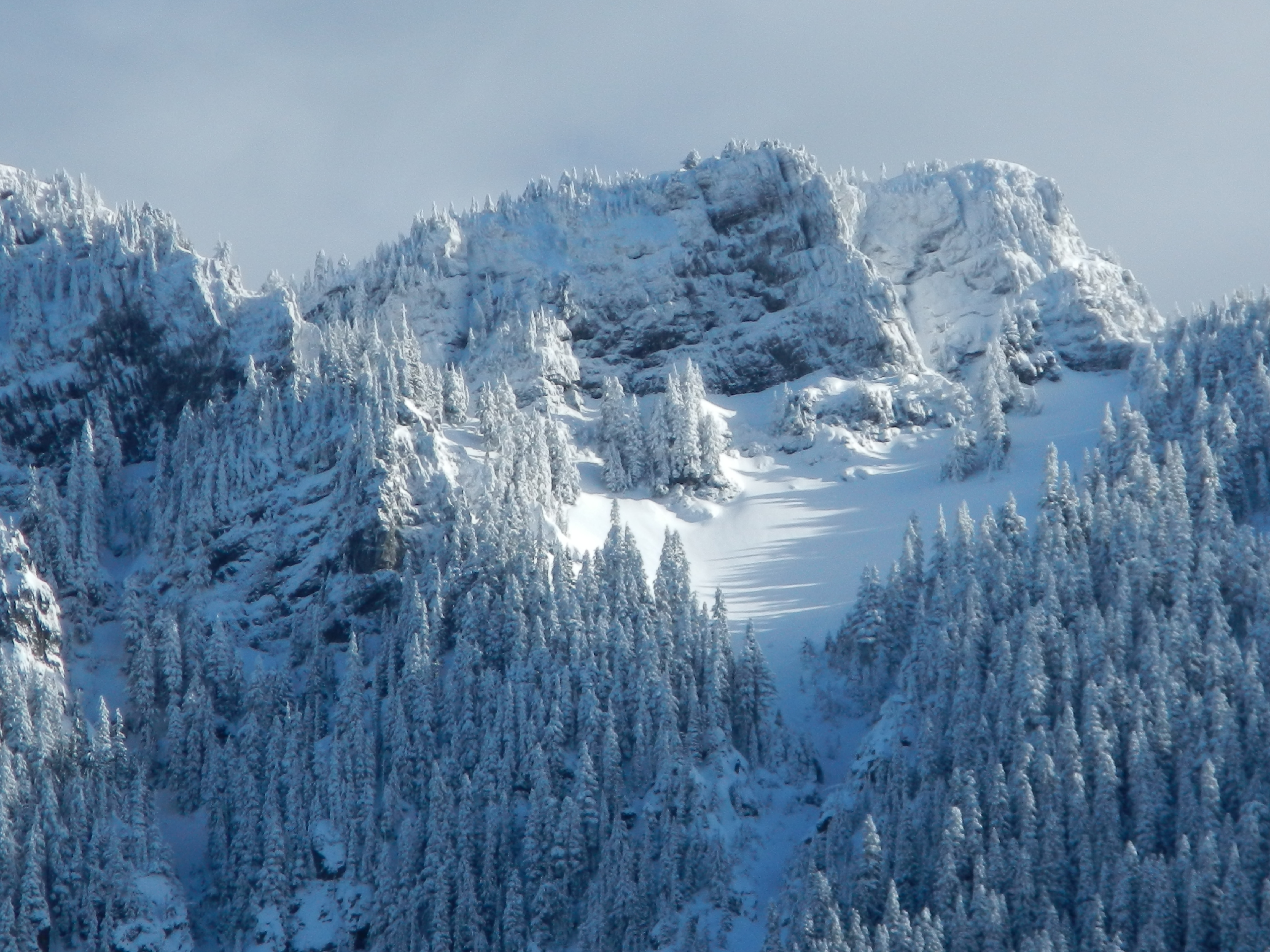 Fresh snow on the ridge above the Gold Creek valley trail with the trees on Dungeon Peak still coated in snow